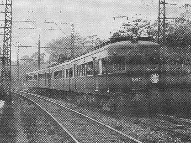 Hankyu Railway #800.